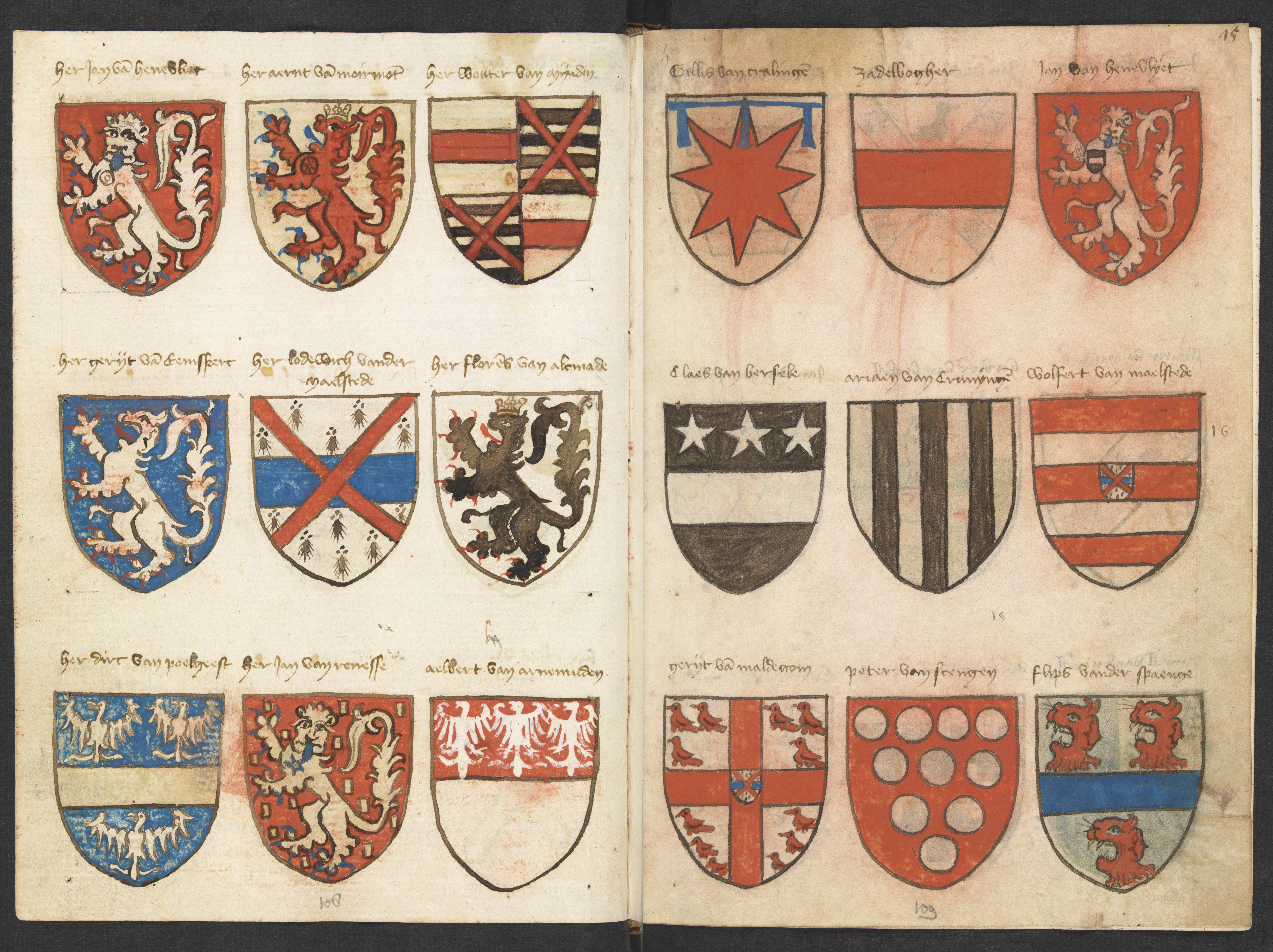 Lefthand side folio 014v; righthand side folio 015r from the Beyeren armorial / Wapenboek Beyeren